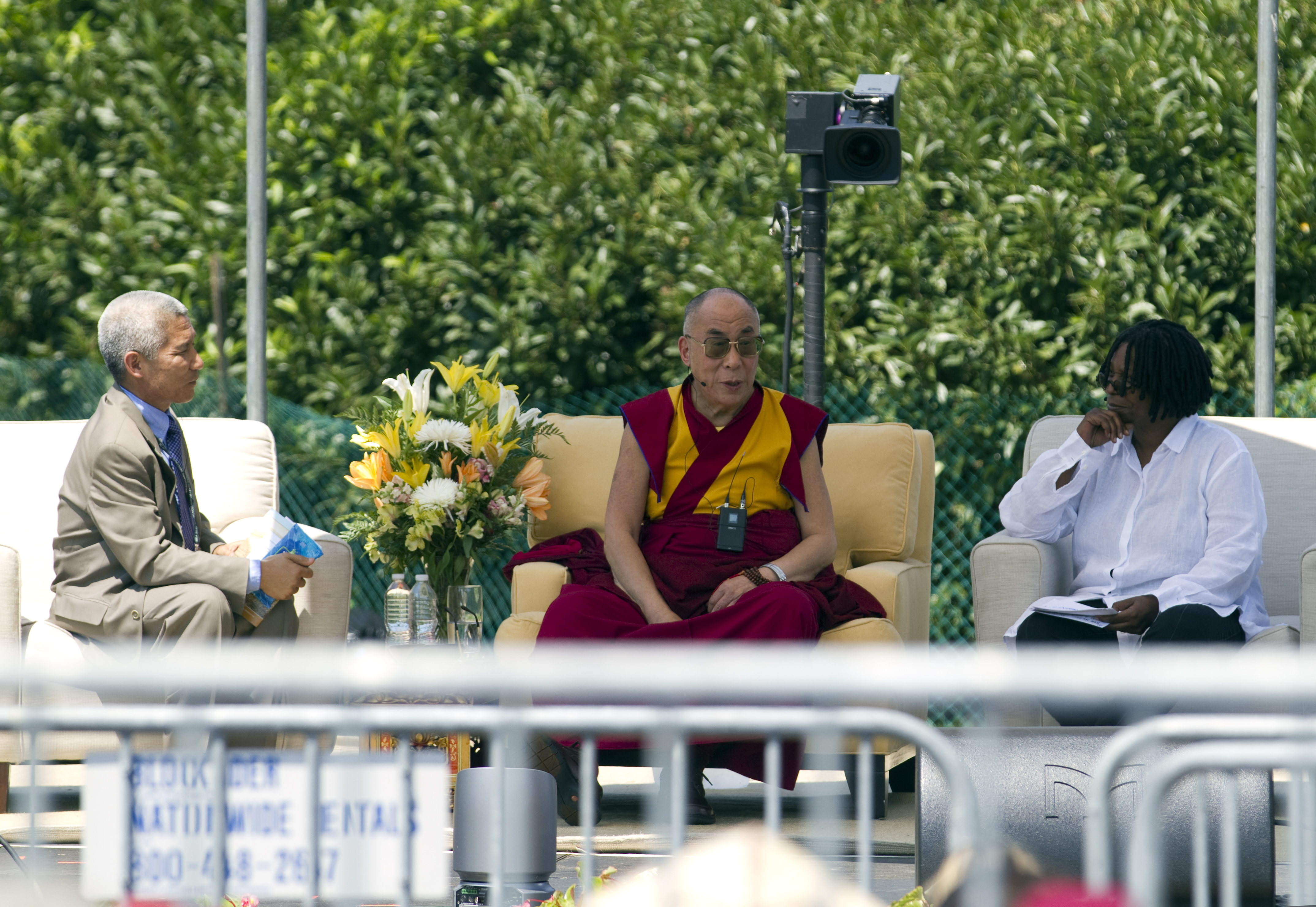 His Holiness the Dalai Lama of Tibet Answering one of the questions that was submitted. His Holiness the Dalai Lama of Tibet Talk For World Peace event in Washington DC July 9 2011, presented by the Capital Area Tibetan Association